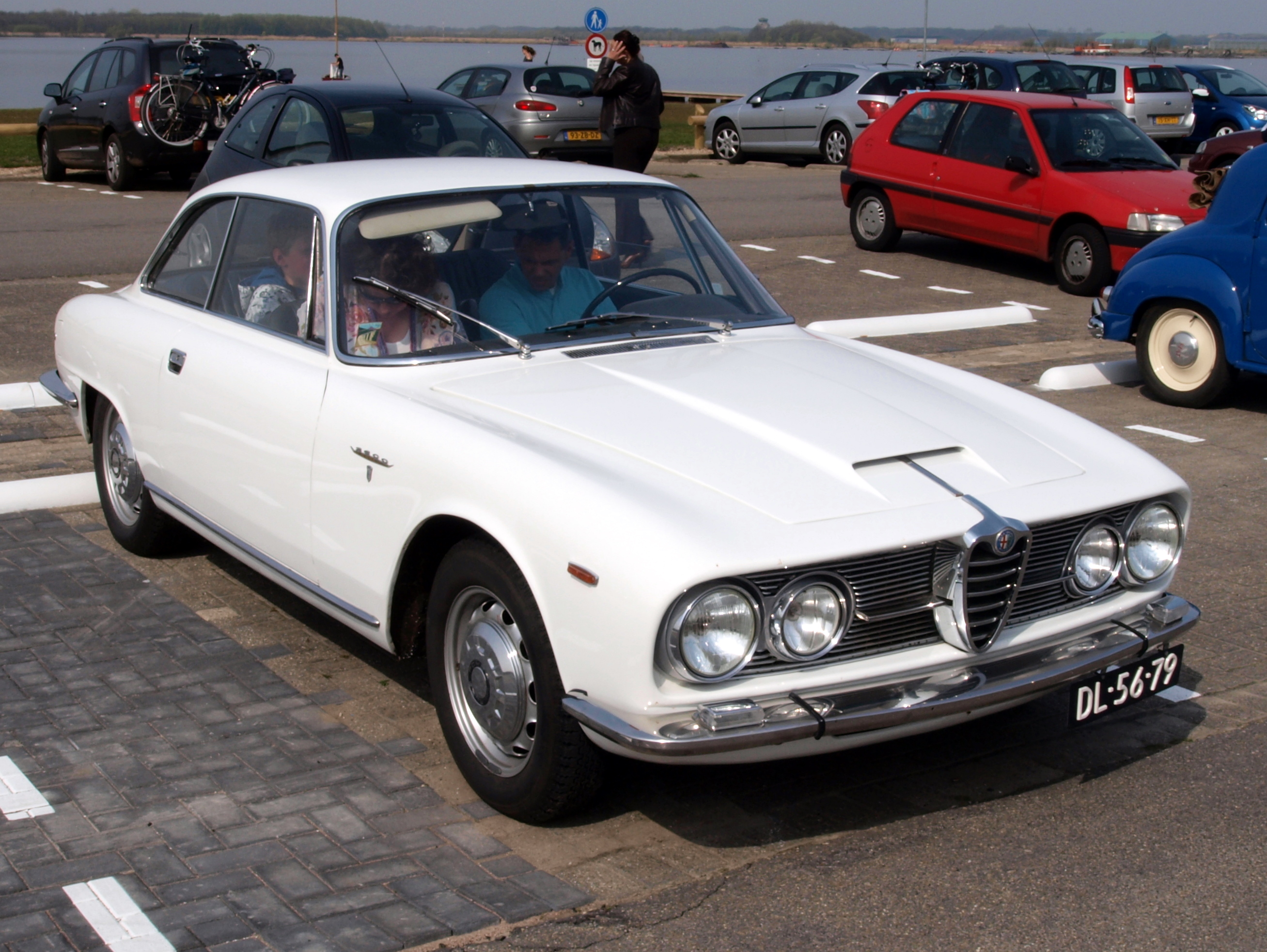 Cars and motorcycles photographed at the Voorschotense Oldtimer Vereniging Show, Valkenburgse meer, The Netherlands.